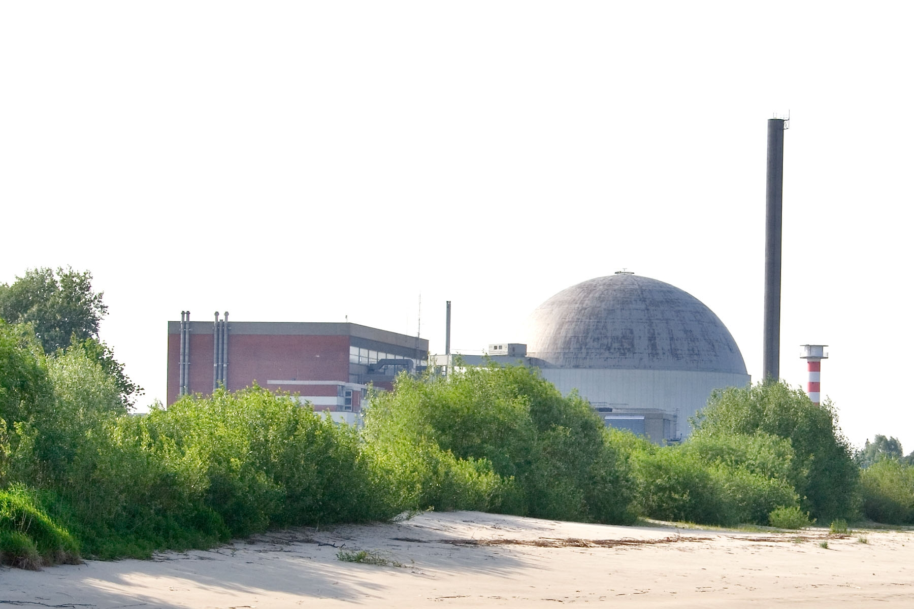 Südostansicht des Kernkraftwerkes in Stade - Southeast view of the Nuclear Powerplant in Stade